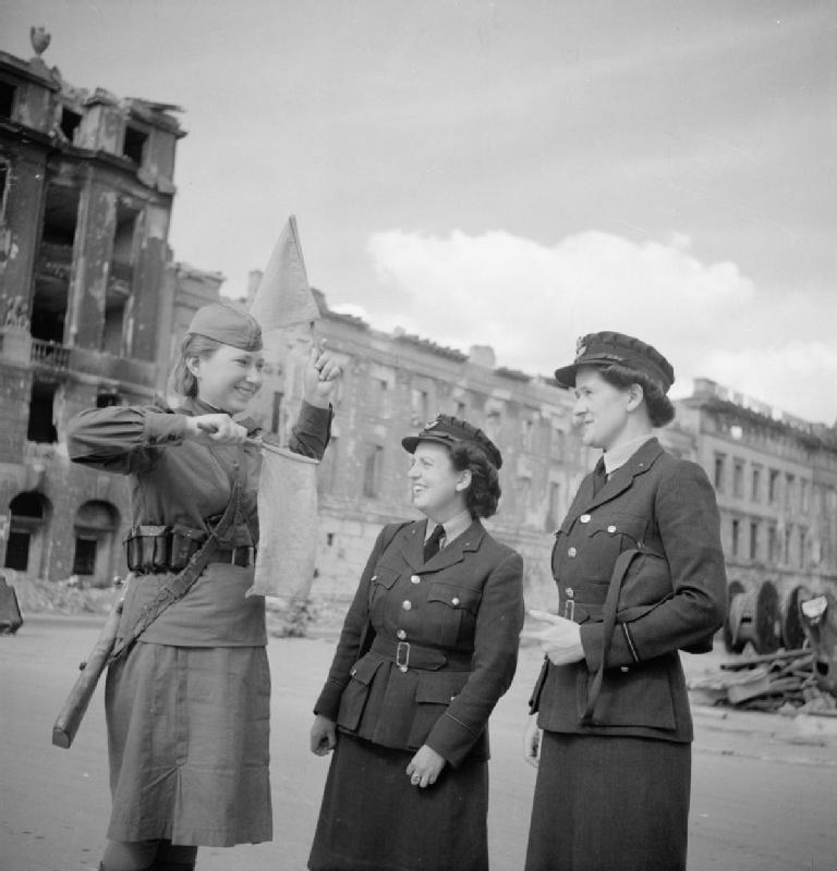 Germany Under Allied Occupation Section Officer P Hack (centre) and Section Officer B Hampson of the Women's Auxiliary Air Force with a Red Army traffic control women near the Brandenburger Tor on the Unter den Linden, Berlin.